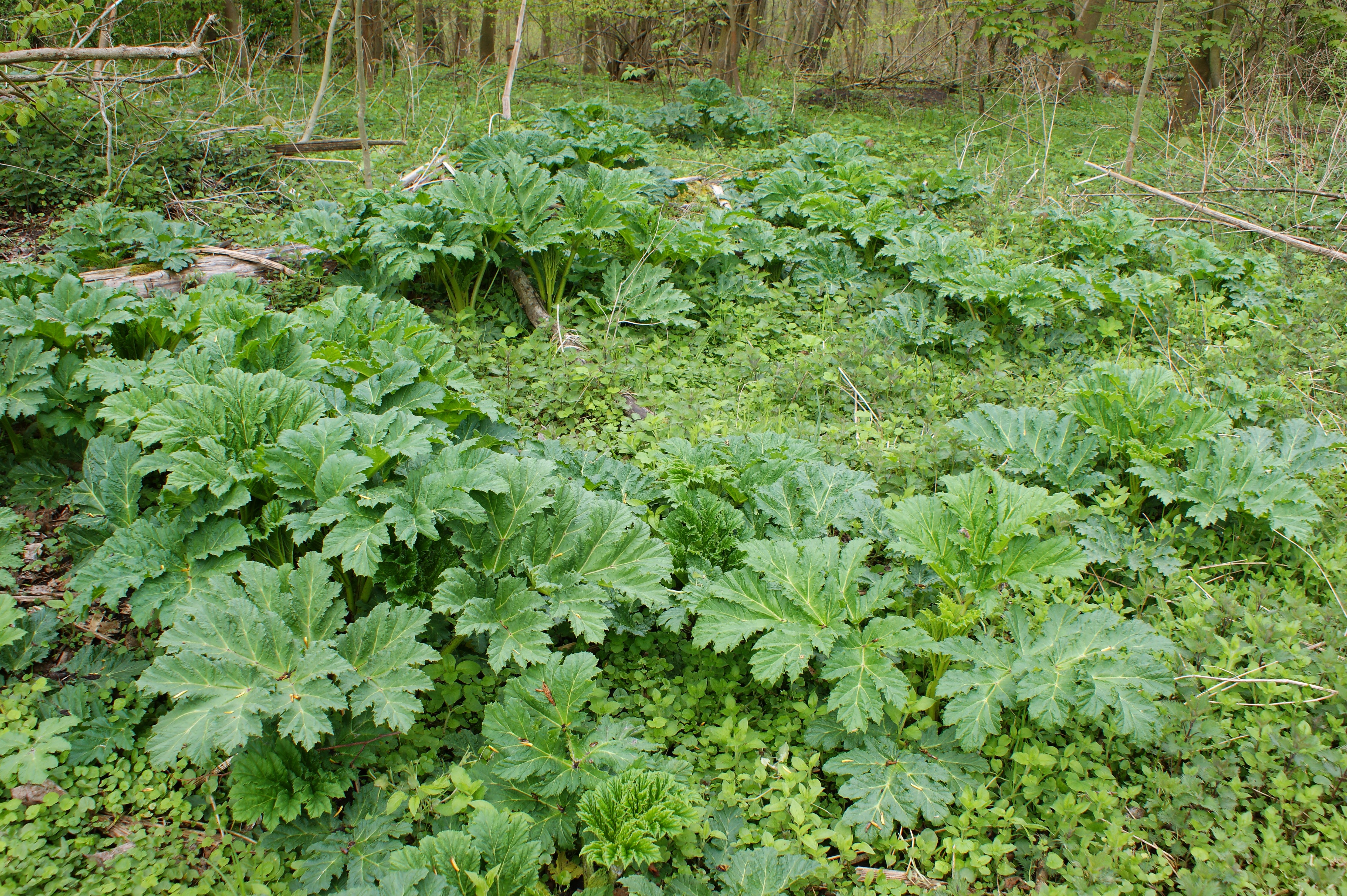 Heracleum sosnowskyi during spring near Kołobrzeg (NW Poland)